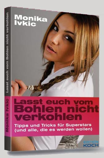 Monice's book Lasst euch vom Bohlen nicht verkohlen. Design: Kirstin Petzolt. Photograph: Igor Minic.